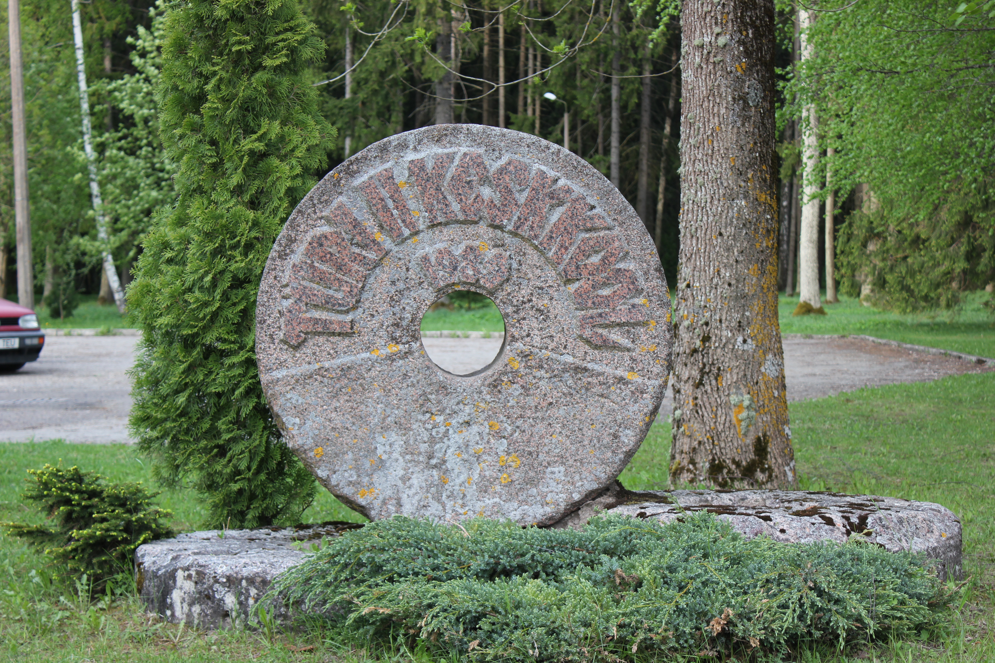 Türi 2nd Highschool's millstone